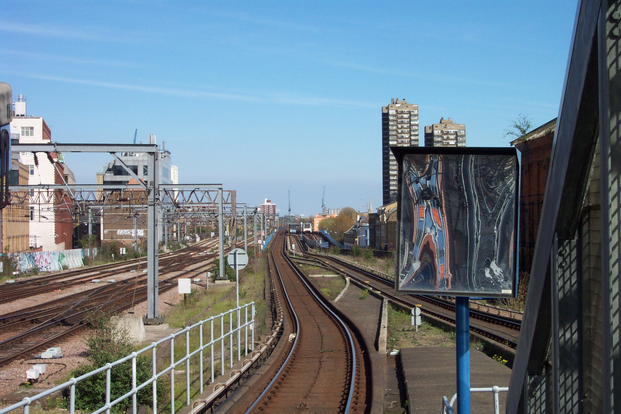 The view from Tower Gateway looking east shows Fenchurch Street approach tracks to the left, the original DLR line in the centre, and DLR train emerging from the tunnel to Bank to the right.